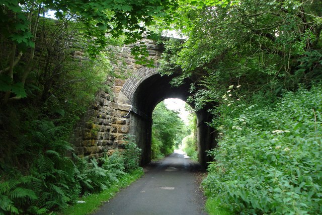 Tunnel under Harpers Brae, Penicuik Once used by trains on the Penicuik-Rosewell branch of the North British Railway. Now takes the Penicuik-Dalkeith walkway under the road.